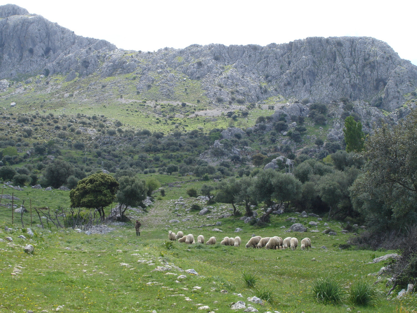 Domestic sheeps in Benaocaz, Grazalema Natural Park (Andalusia, Spain)